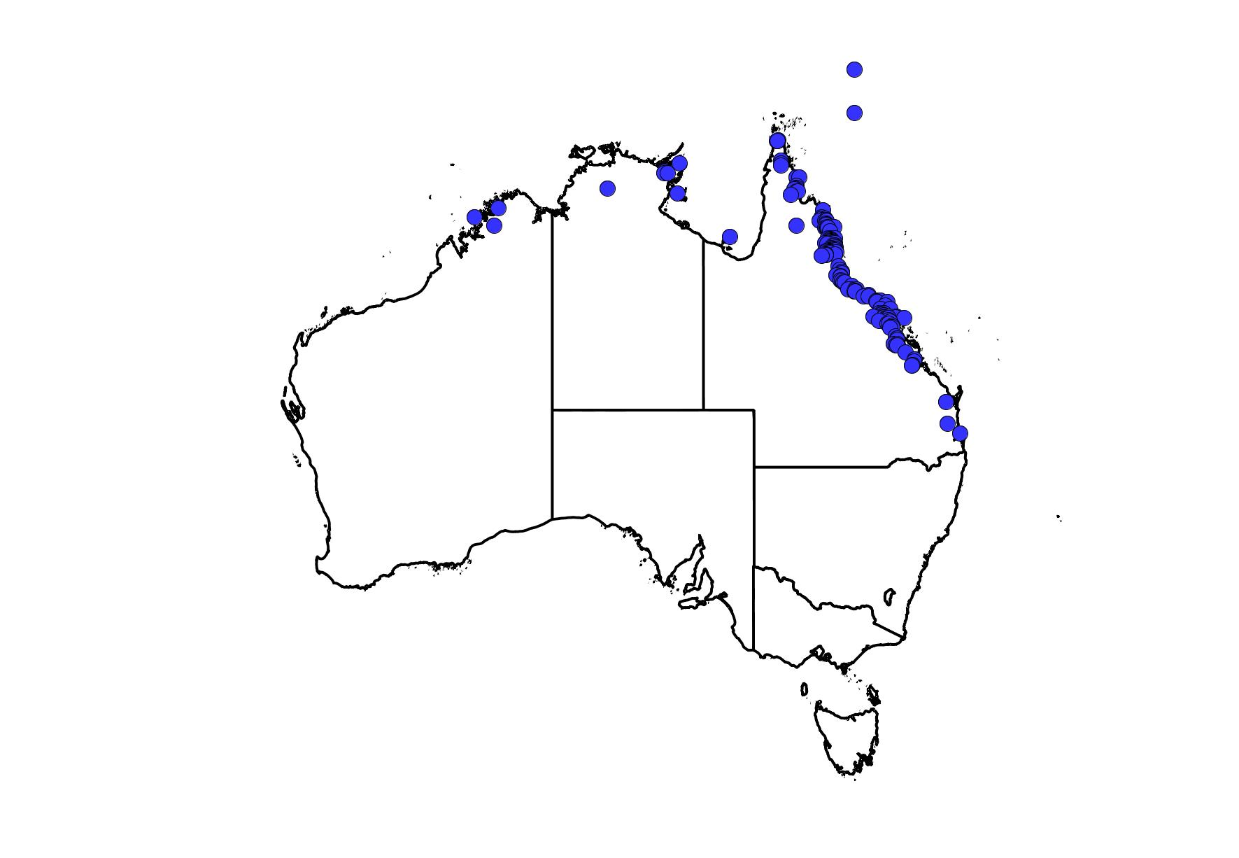 Generated in the Australian Virtual Herbarium website